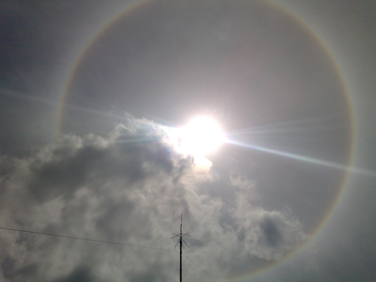 I took this on the top of my house..